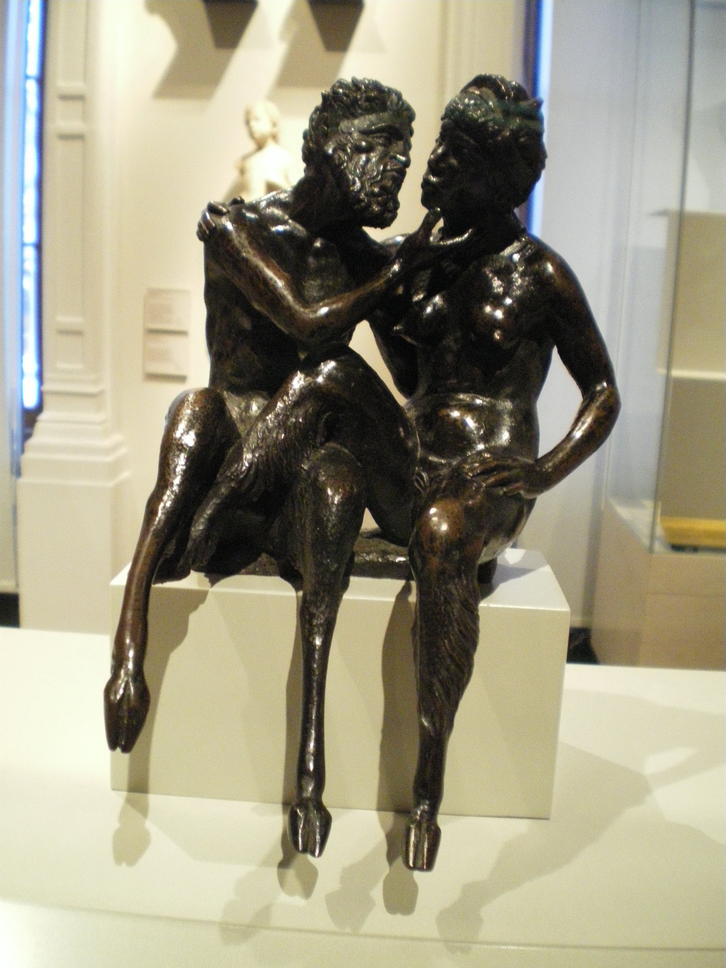 Satyr and satyress About 1510-20 Andrea Briosco, called Riccio (1470-1532) Italy, Padua Bronze Riccio was probably the greatest sculptor of small bronzes in Renaissance Italy. He had close ties with the scholars of Padua University, who encouraged his interest in antiquity and owned many of his intimate figure groups. Here Riccio shows the lustful nature of the satyrs but also their tender relationship. In this group Riccio challenges the notion of the Satyr as a wanton beast driven purely by carnal desires by creating a tender scene of intimacy between two creatures, albeit with an overt sexuality. The Satyr and Satyress sit intertwined on a shallow integral base, their arms around each other's shoulders, her right leg resting over his left. The Satyr touches his partner's neck with his fingertips, his thumb resting on her chin, their lips pursed as if about to kiss. The sexes are differentiated even in the detail: for example the male's eyebrows are marked with lines to indicate hair, while the female's are smooth. In contrast to her partner's goatlike legs, those of the Satyress, though hairy, are shapely like human's. Her hair is dressed elaborately, interwoven with ribbons and beads, and topped with a tiara decorated with shells; at the back it is tucked into swags, with ribbons that drape over the shoulders Presented by The Art Fund Collection ID: A.8-1949 This photo was taken as part of Britain Loves Wikipedia in February 2010 by art_traveller.